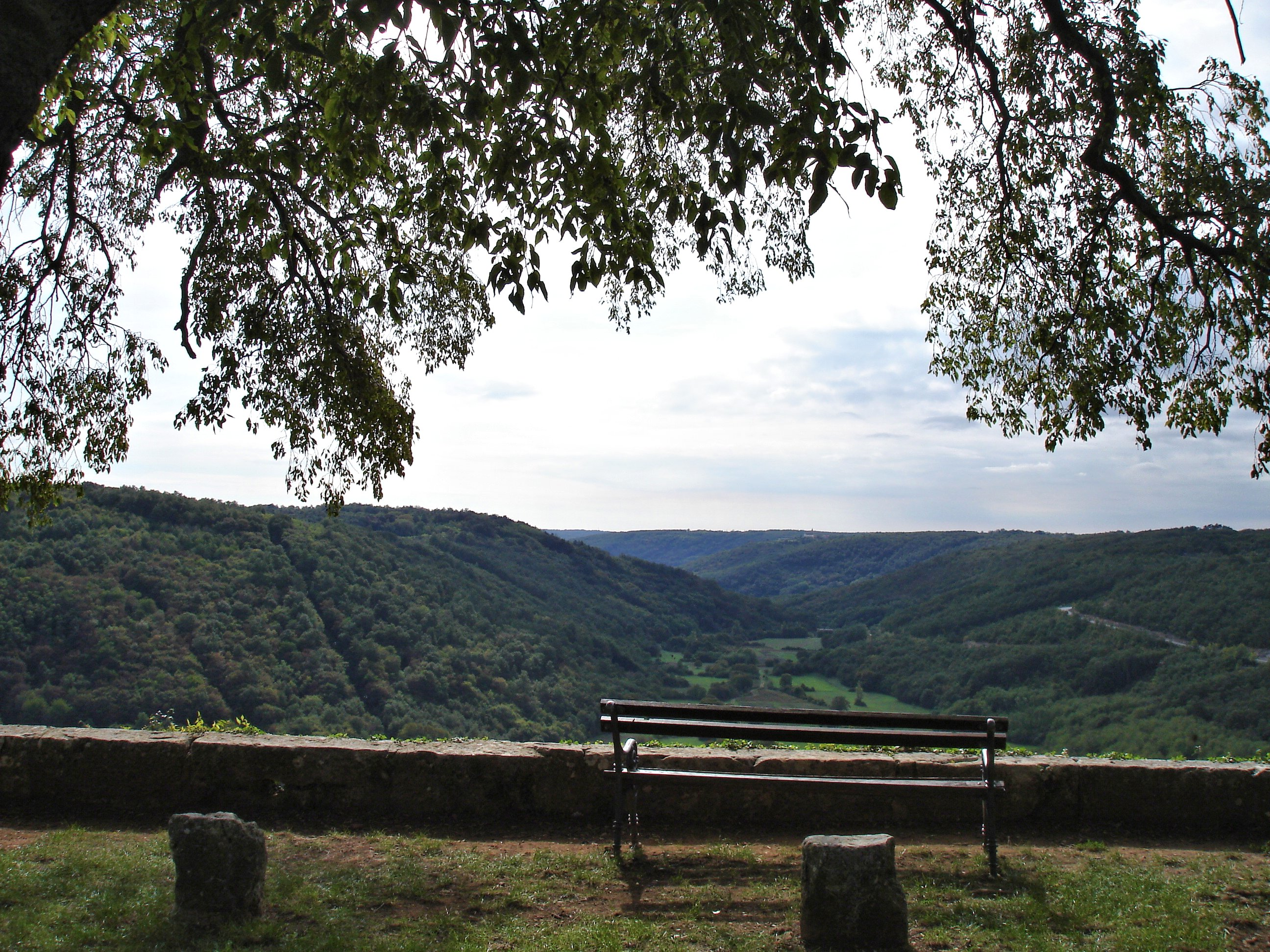 Scenic overlook in Tinjan, Croatia, southern view on Lim canyon valley